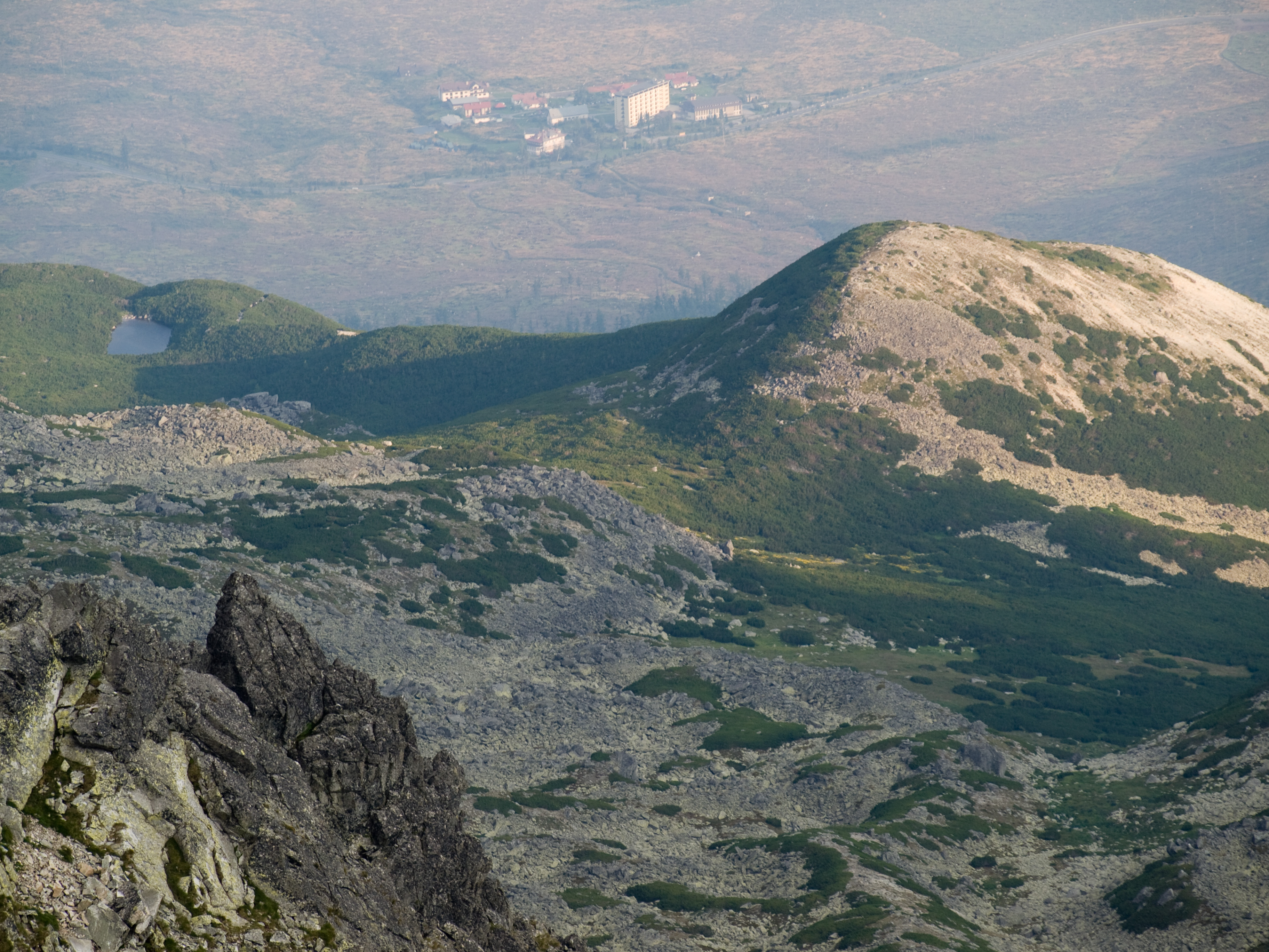 Senná kopa and Slavkovské pliesko